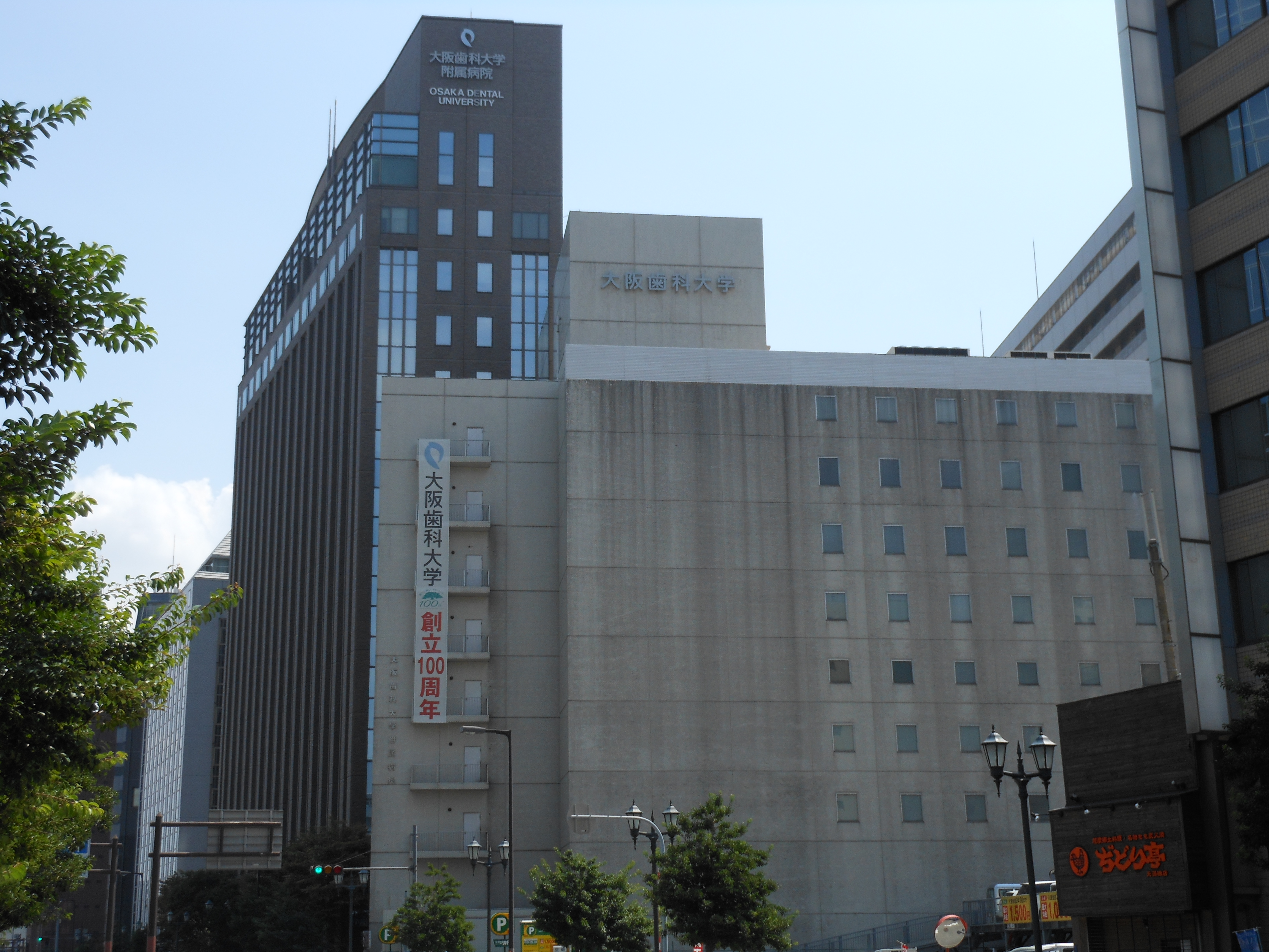 Osaka Dental University Temmabashi Campus, 1-5-17 Otemae Chuo-Ku Osaka-City Osaka Japan.